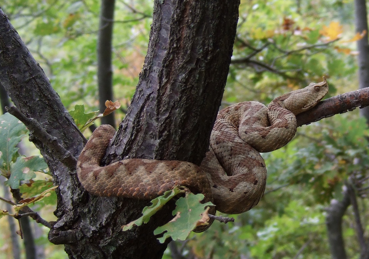 Vipera ammodytes.I met this snake on September 27, 2008 in the forest on a rocky slope near Sutorman, Bar area, Montenegro (N 42.1523 E 19.1163)